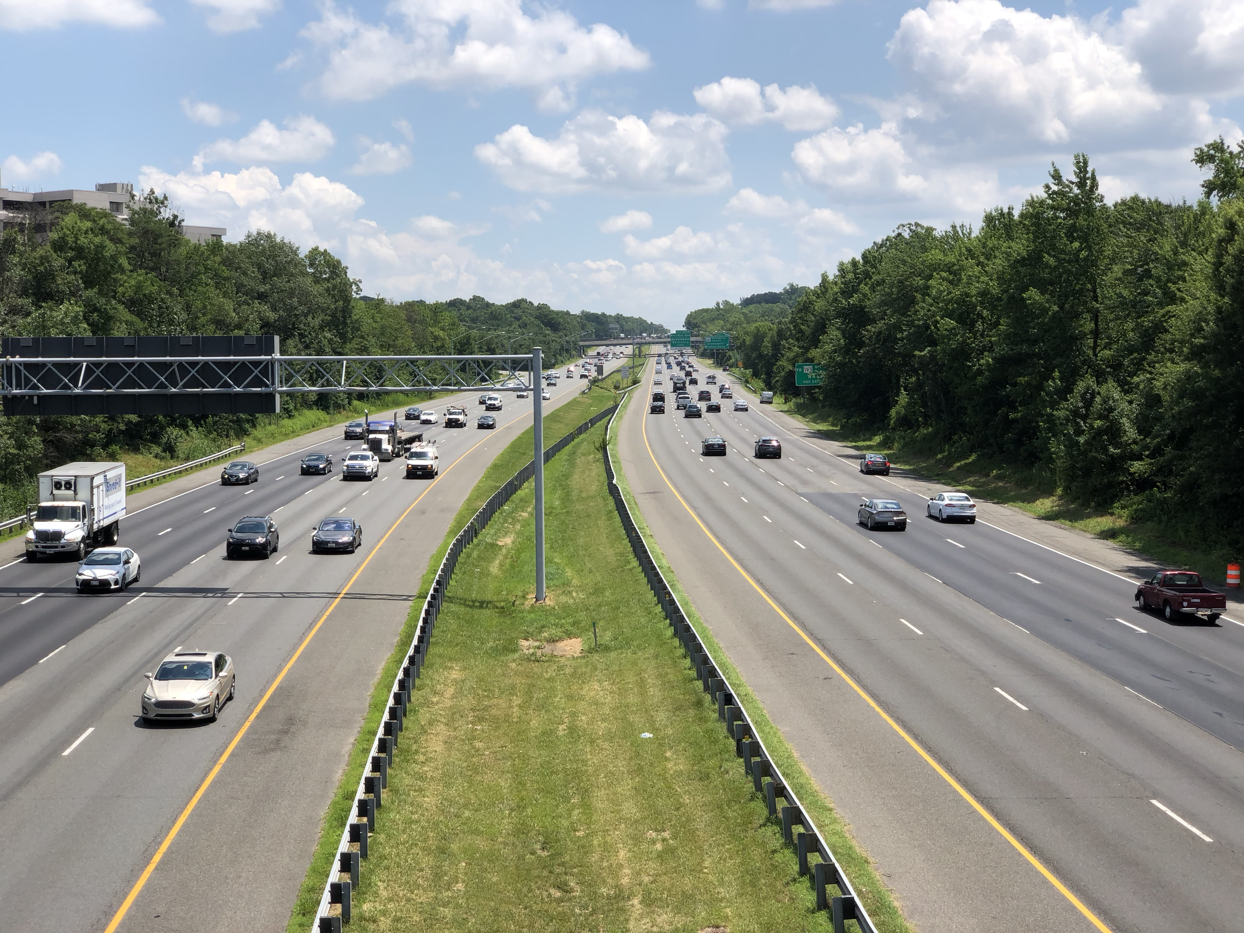 View south along Interstate 95 and Interstate 495 (Capital Beltway) from the overpass for Cherrywood Lane in Greenbelt, Prince George's County, Maryland